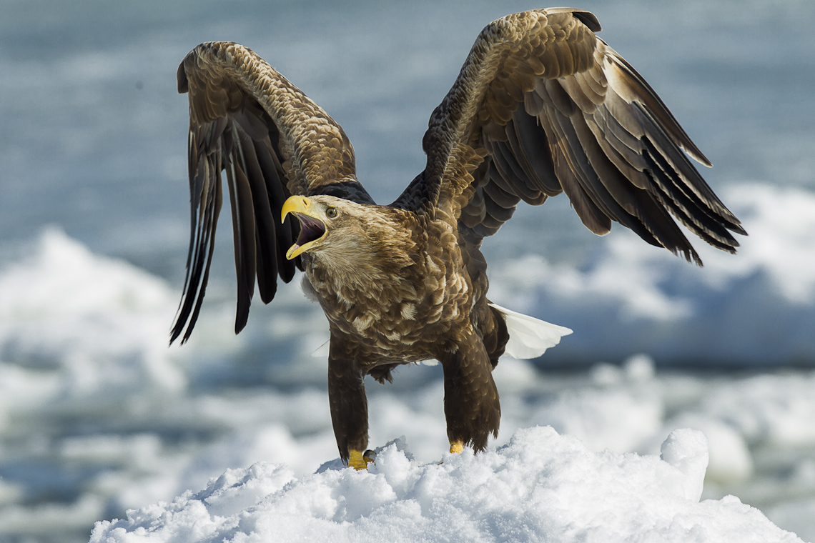 White-tailed Sea-Eagle - Hokkaido - Japan_S4E9284